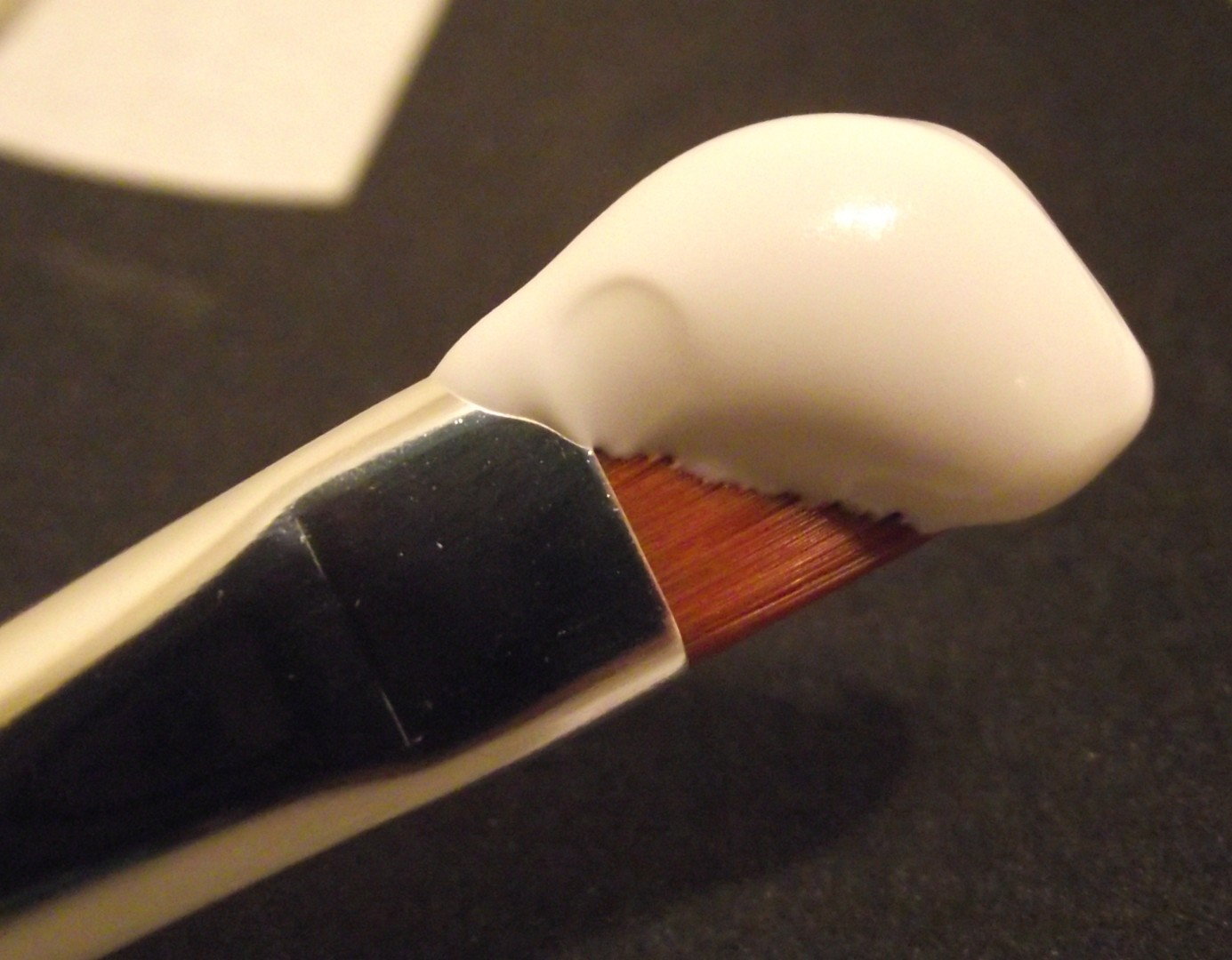 Acrylic gesso on a paintbrush.